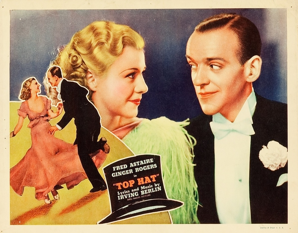 Lobby card for the 1935 film Top Hat.